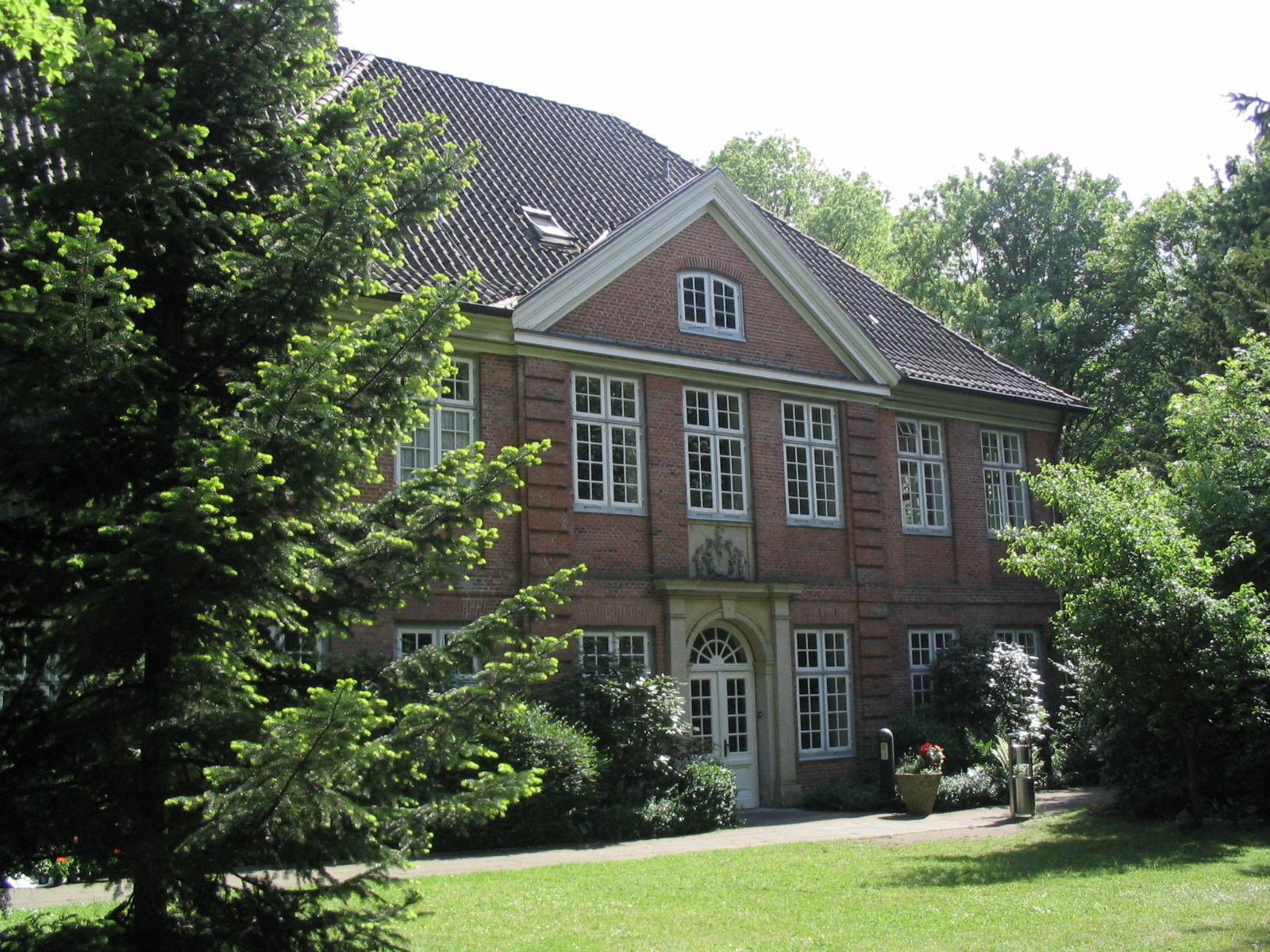 Hamburg-Groß Borstel, Stavenhagenhaus This is a photograph of an architectural monument.